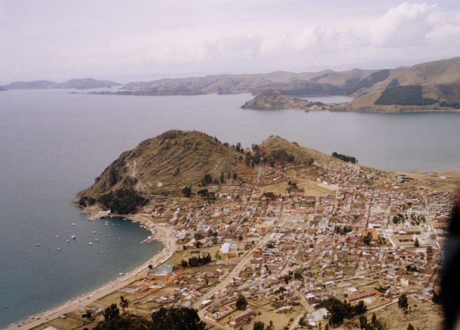 Copacabana (bolivia) as seen from above by paraglider